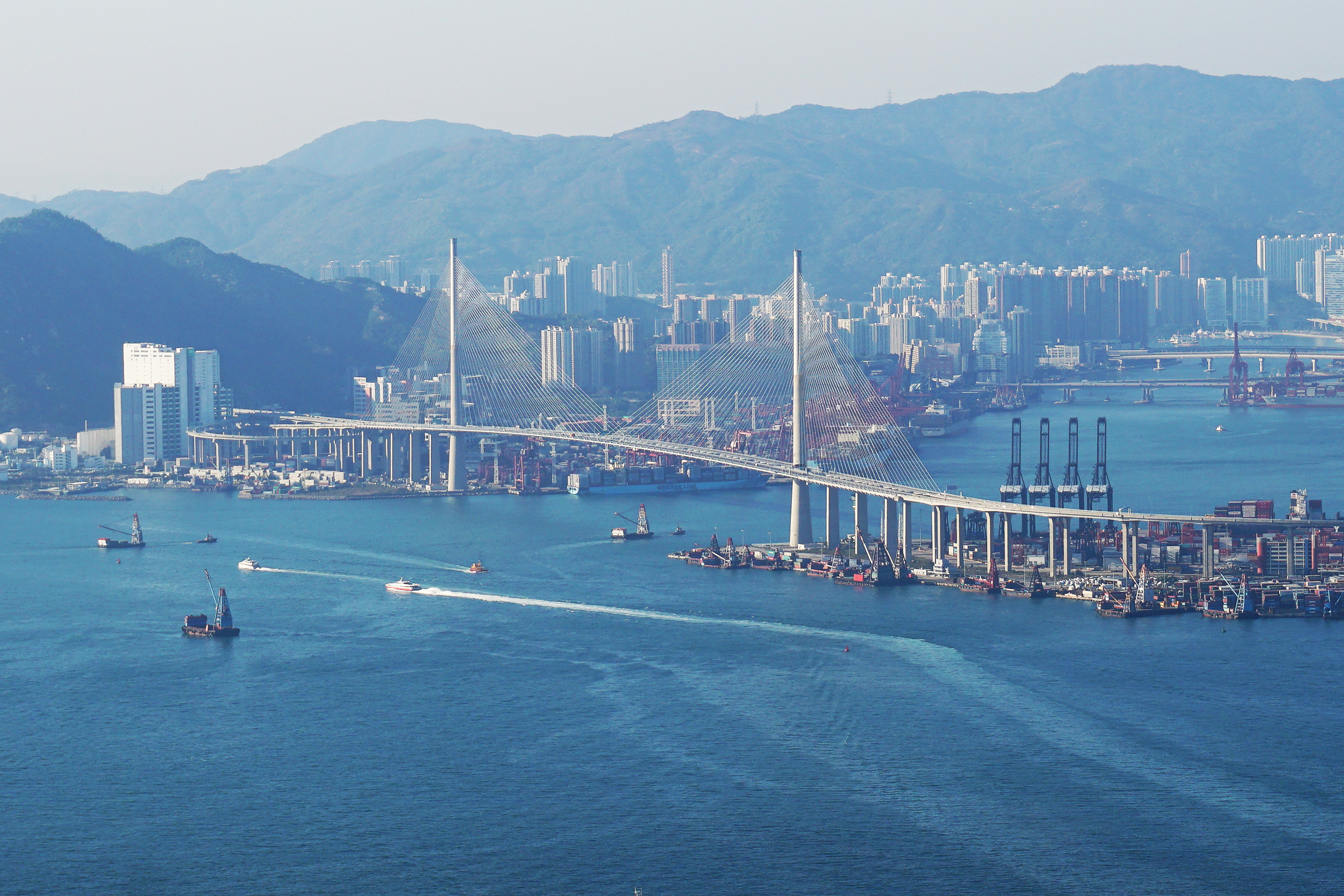 Stonecutters' Bridge in Kwai Tsing District, Hong Kong.